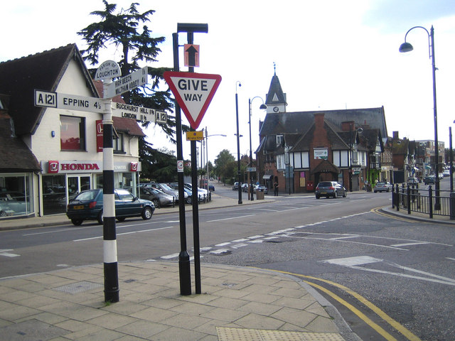 Loughton: A121 High Road Loughton Parish Council are rightly proud of their traditional finger post road signs. This one at the junction of the High Road with Station Road and Forest Road tells us the following mileages:- Epping 4½, Buckhurst Hill 1¾, London 11¾, High Beech 1½, and Waltham Abbey 4¼. Lopping Hall 548944 is the building with the clock tower in the distance.